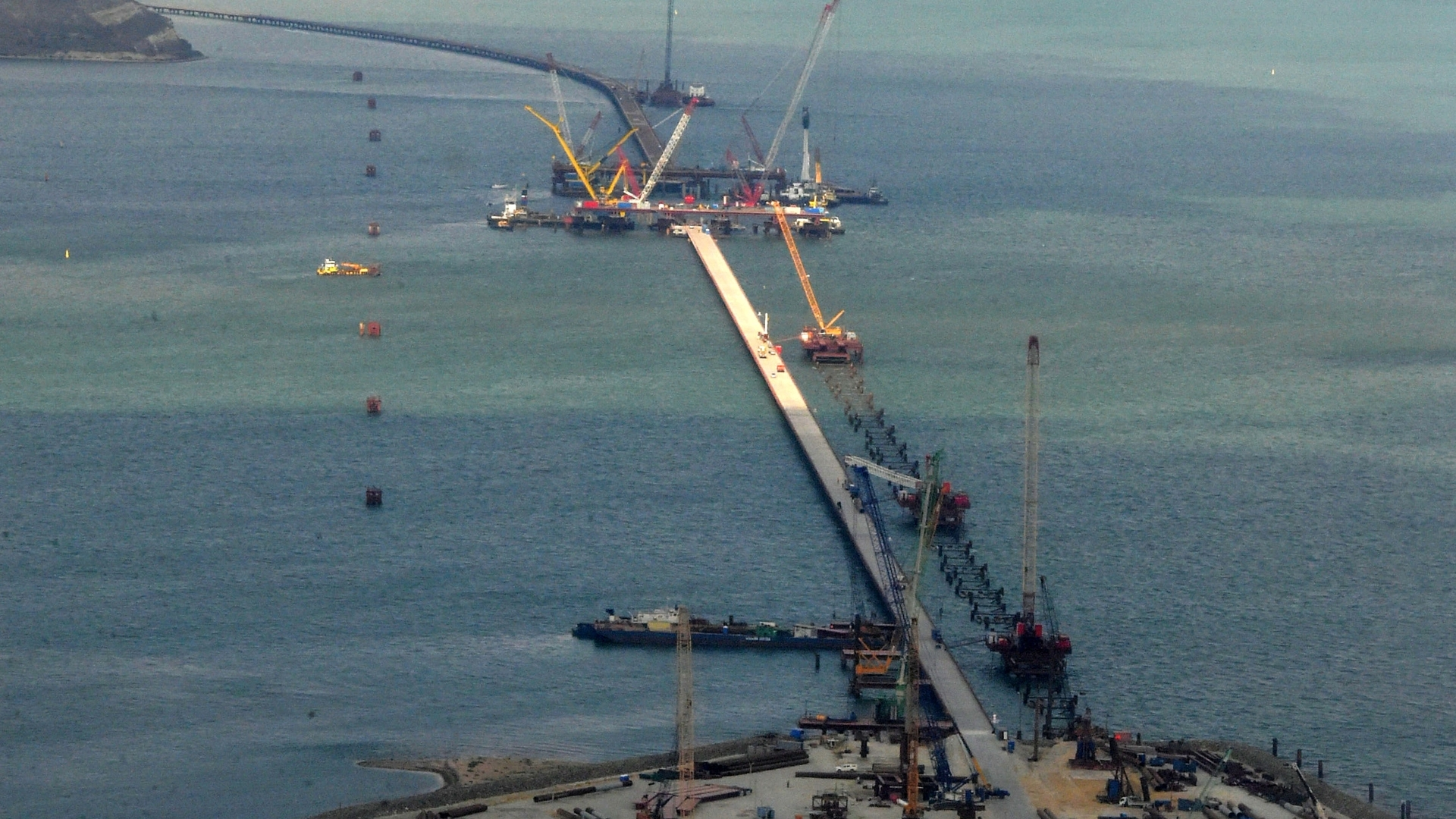 Construction of a passage for ships through the Krim Bridge, the bridge over the Strait of Kertsch (September 2016).